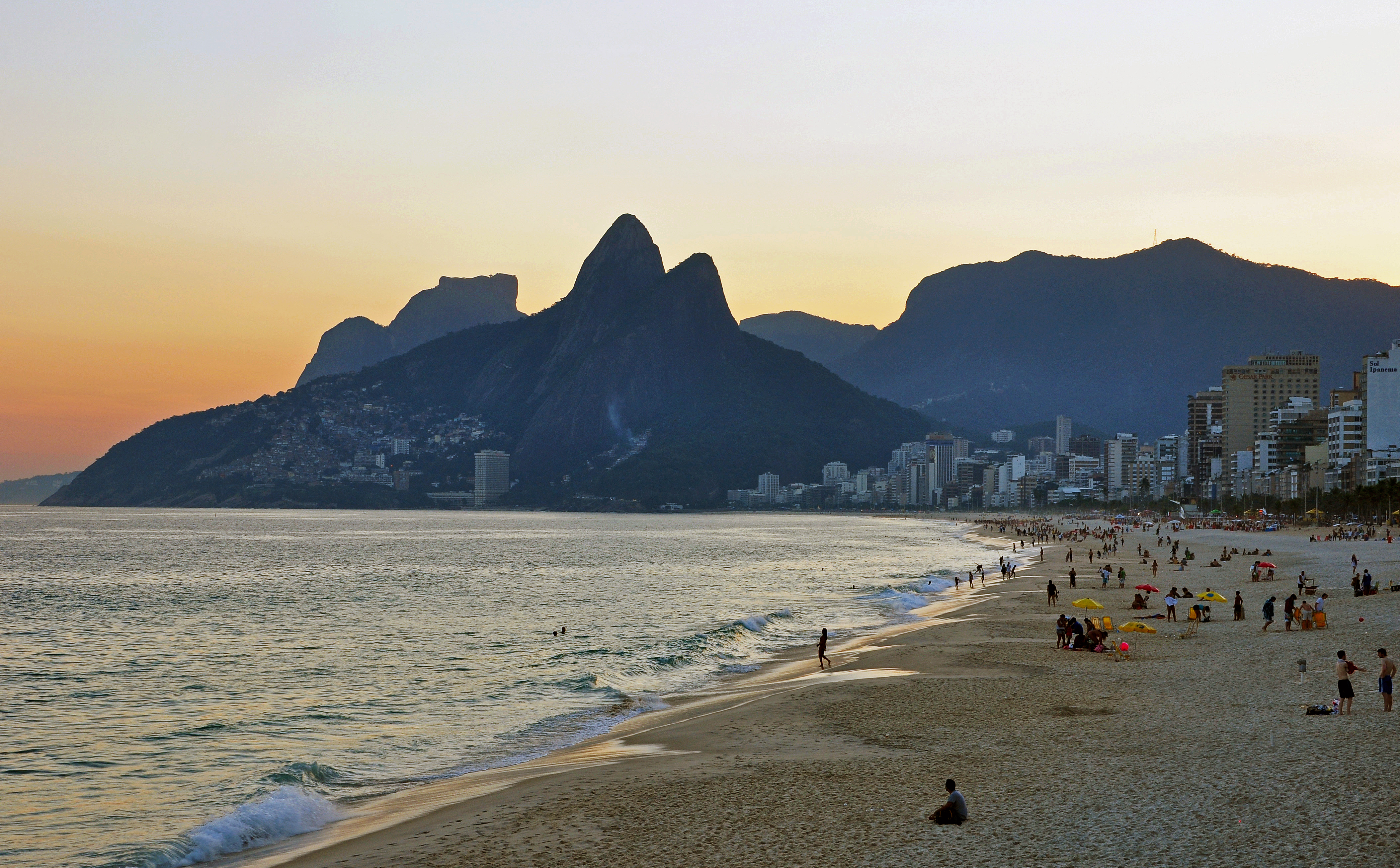 ipanema beach rio de janeiro vidigal favela sunset 2010